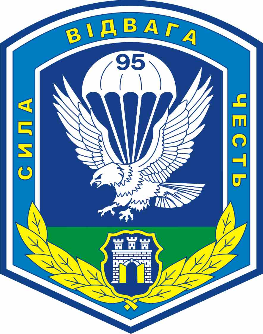 Sleeve patch for Ukrainian 95th Airmobile brigade